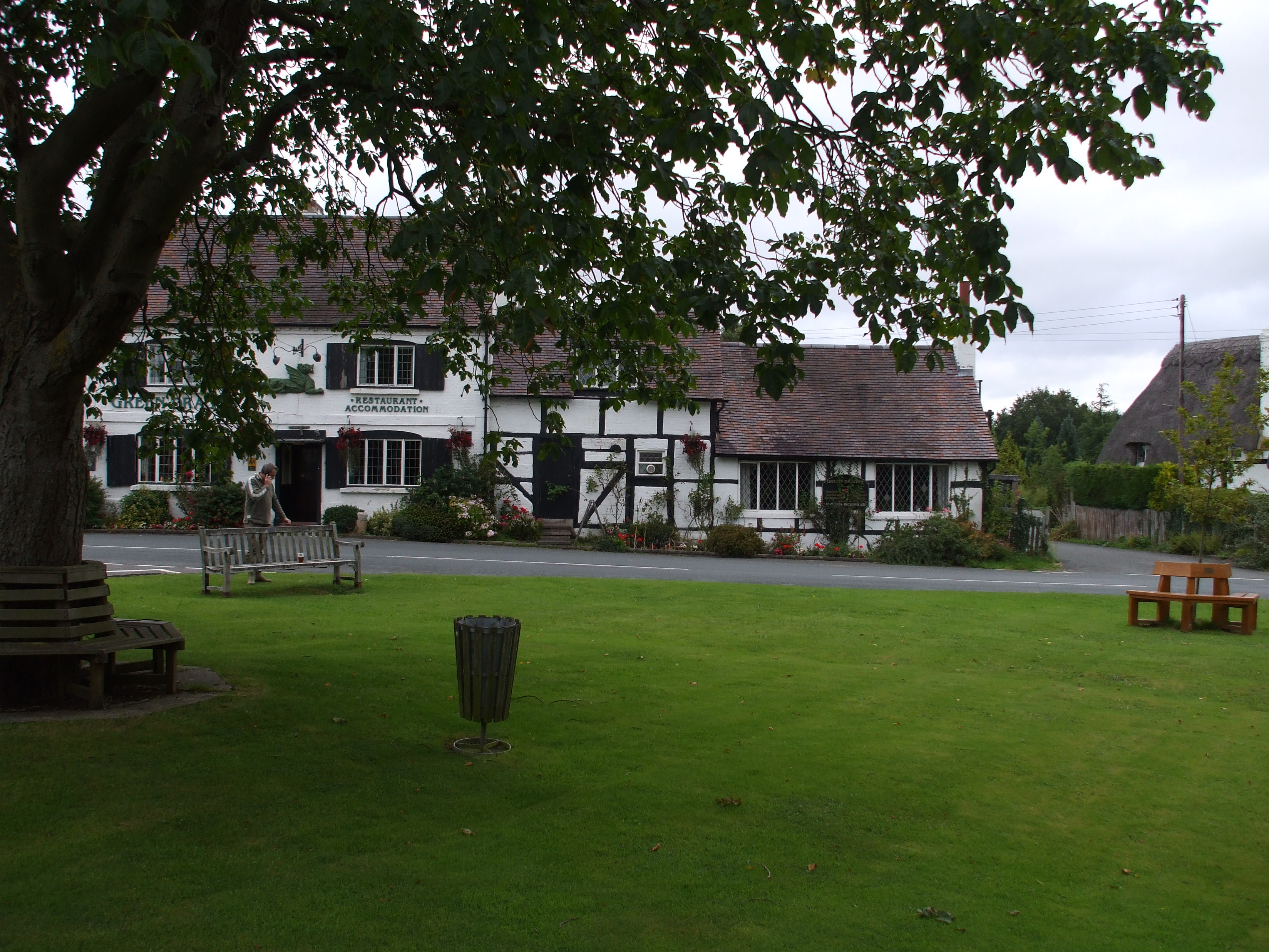 Sambourne Warwickshire Village green and Green Dragon Public House